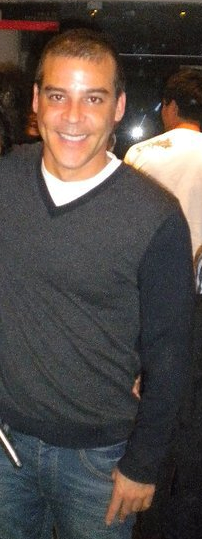 Peruvian TV host Adolfo Aguilar Villanueva in december 2011.